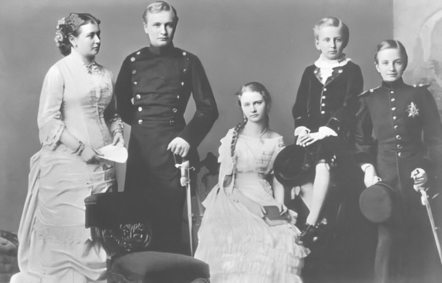 Princess Maria Josepha of Saxony (later Archduchess of Austria) with her siblings: Mathilde, Augustus (future King of Saxony), Johann Georg and Maximilian.